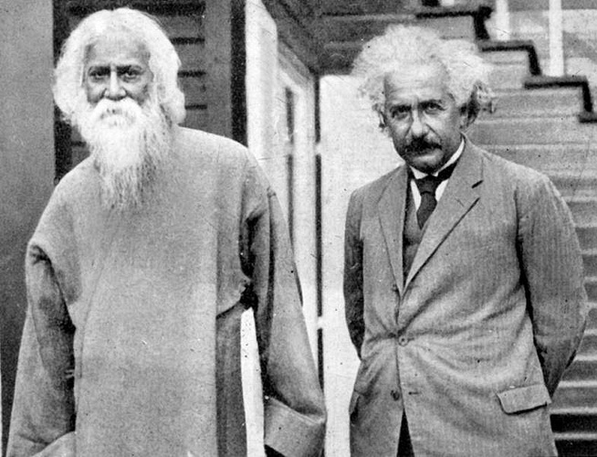 Rabindranath Tagore and Albert Einstein in 1930Commons Uploader: Rahat Rahim